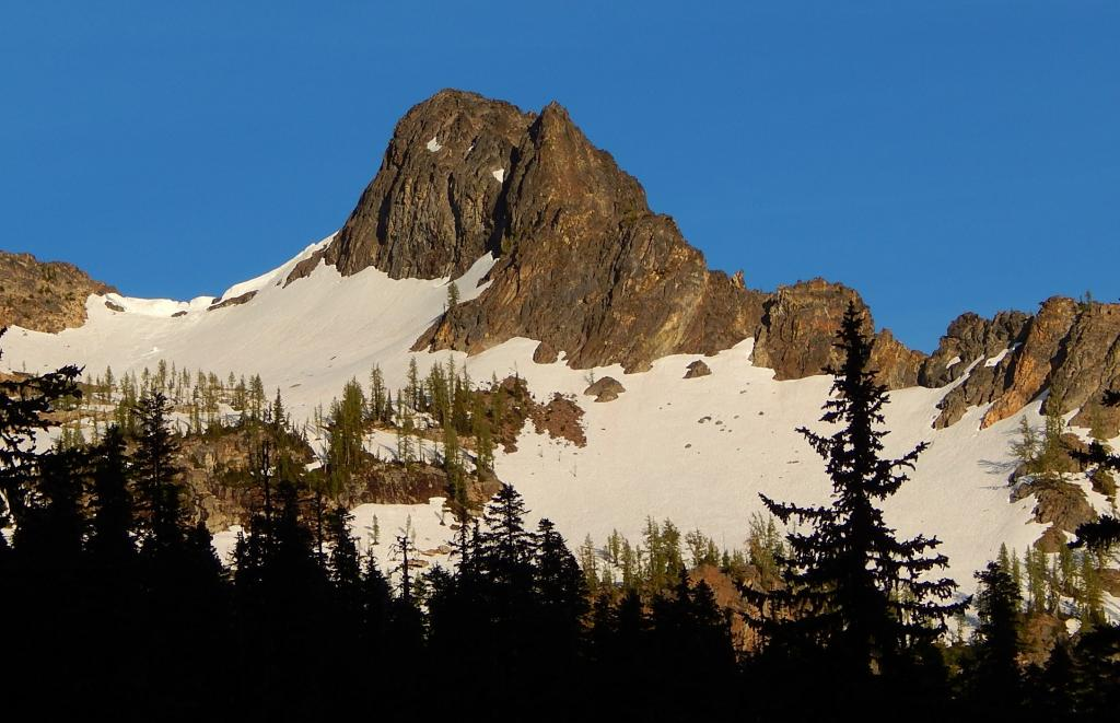 Blue Lake Peak seen from the North Cascades Highway at the Blue Lake Trail Head at sunset. North Cascades.